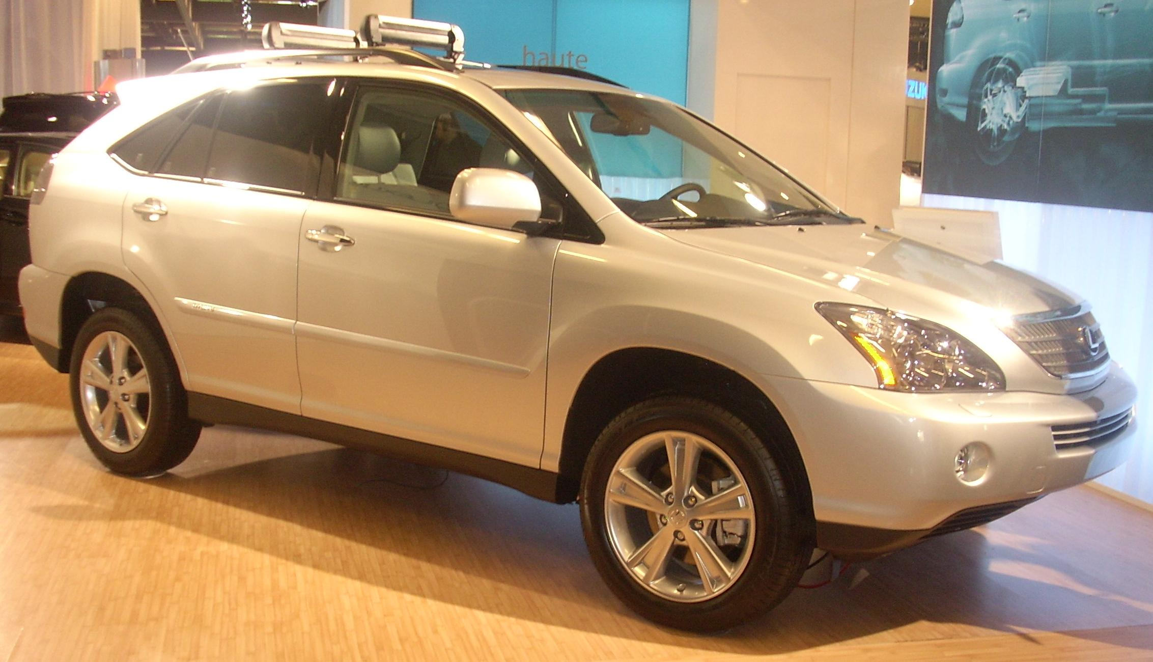 2008 Lexus RX 400h photographed at the Montreal Auto Show.